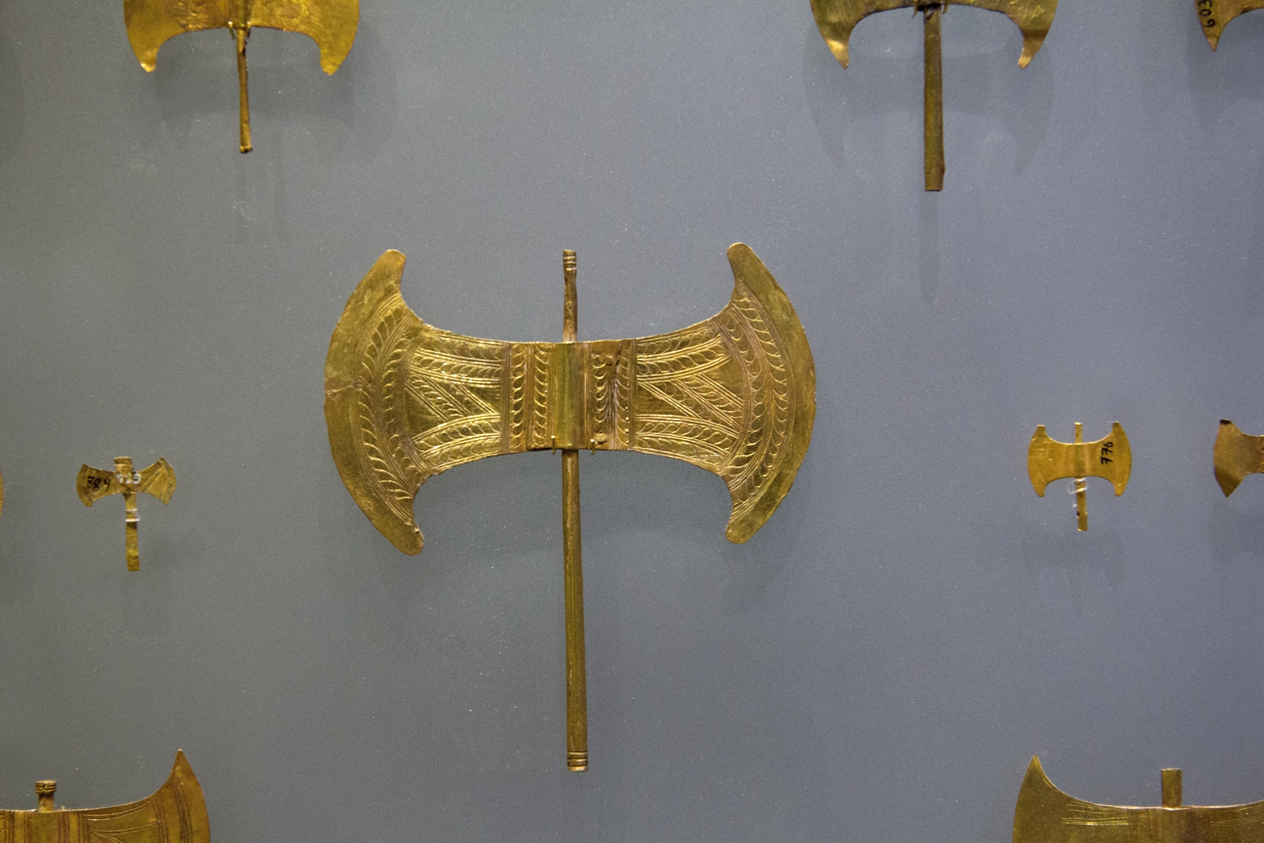 Votive double axes of gold sheet. Arkilochori Cave, 1700-1450 BC. Archaeological Museum of Heraklion.